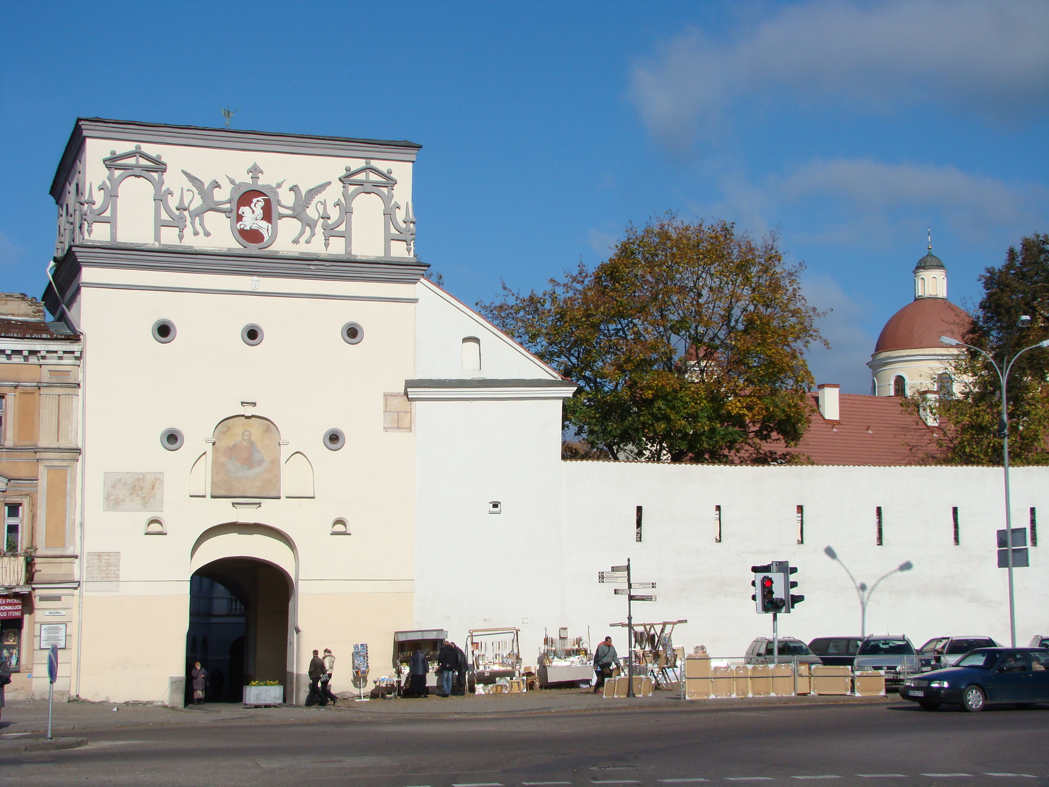 Aušros Vartai (Gate of Dawn) in Vilnius old town